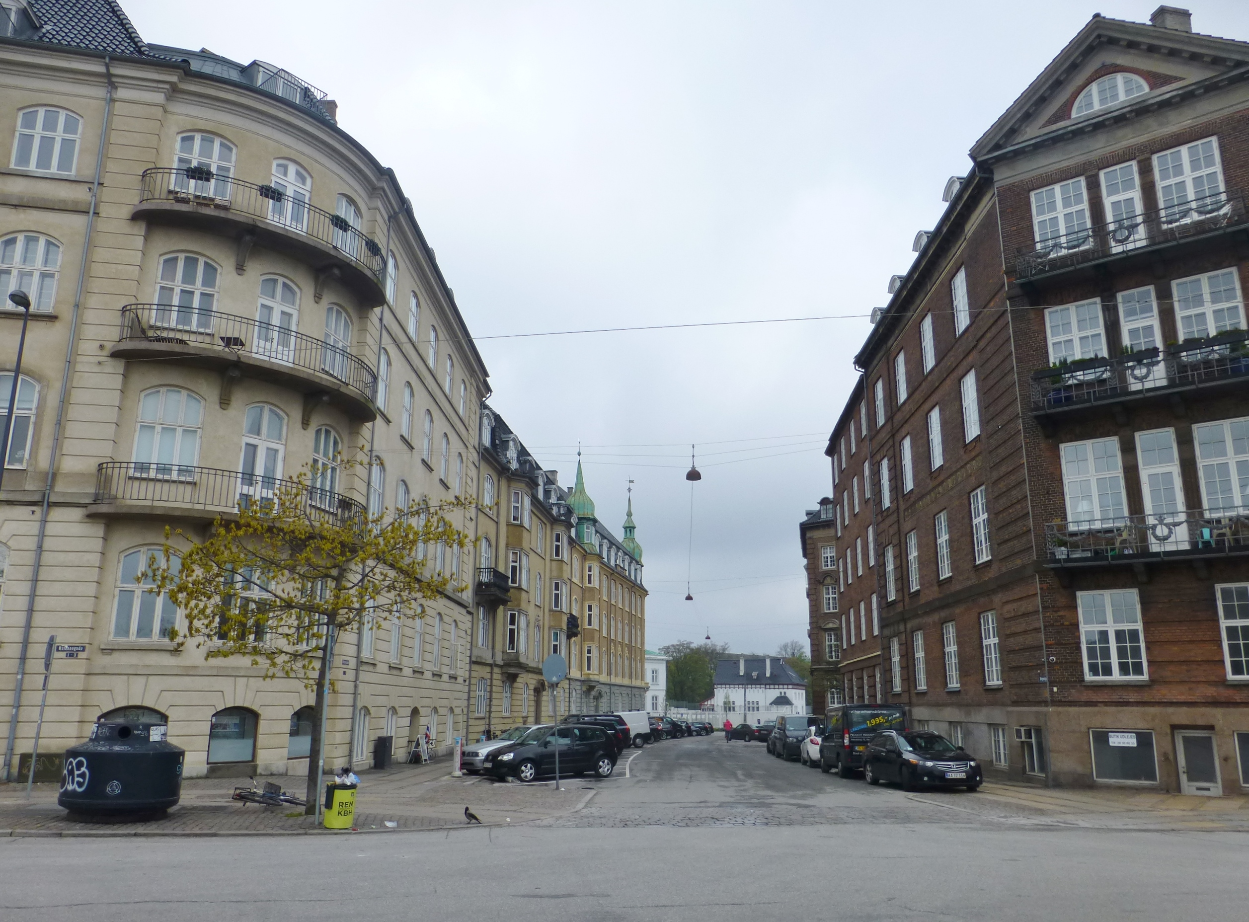 The street Bergensgade at Østbanegade in Østerbro in Copenhagen.